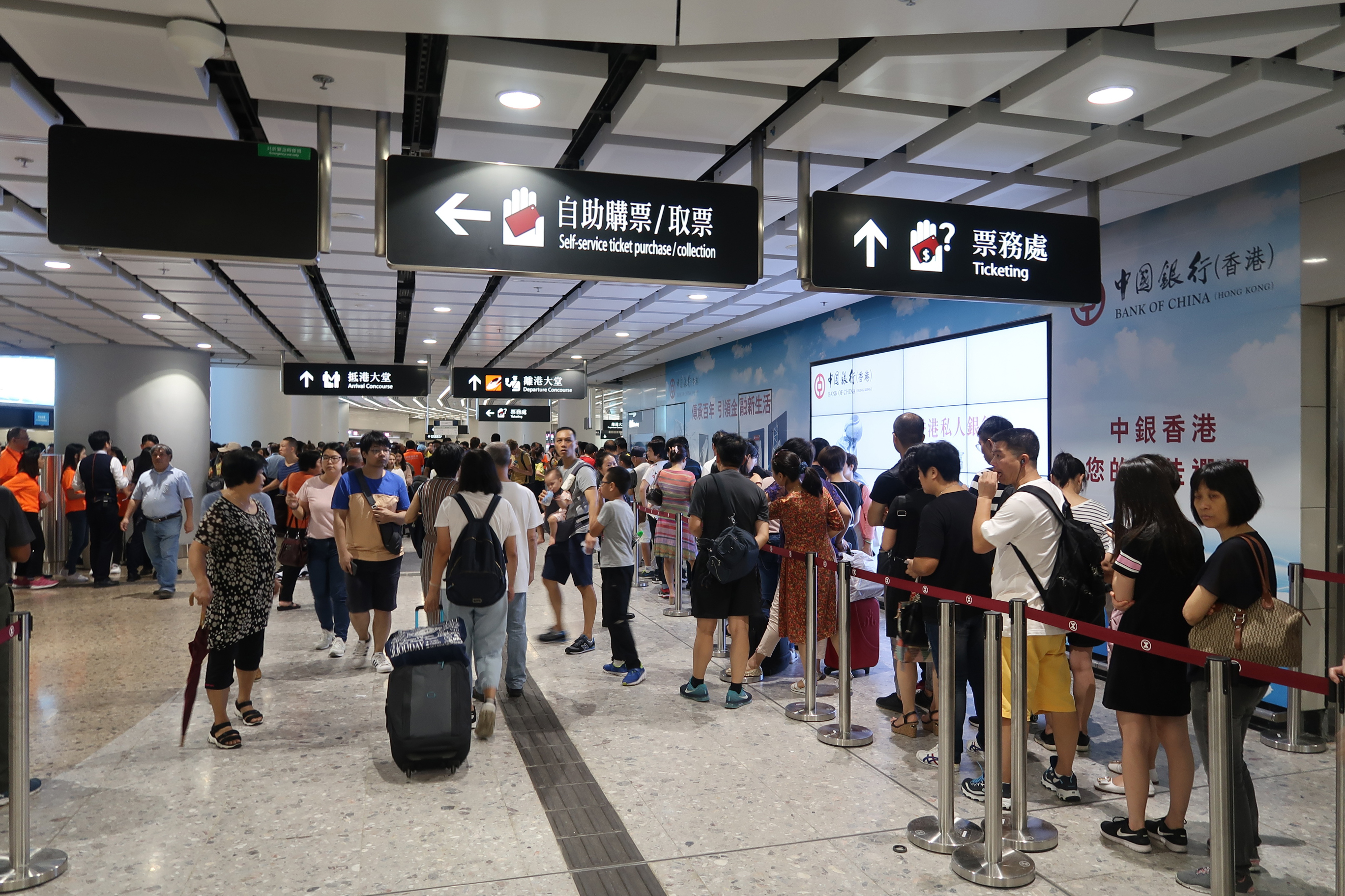 queue to take ticket in Hong Kong West Kowloon Station